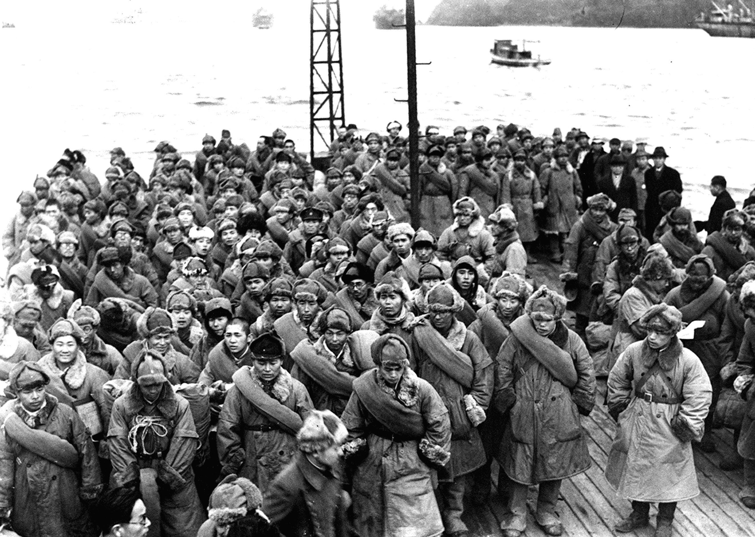 Japanese soldiers returning from Siberia, where they were imprisoned after World War II, wait to disembark from a ship at Maizuru, Kyoto Prefecture, Japan in 1946.